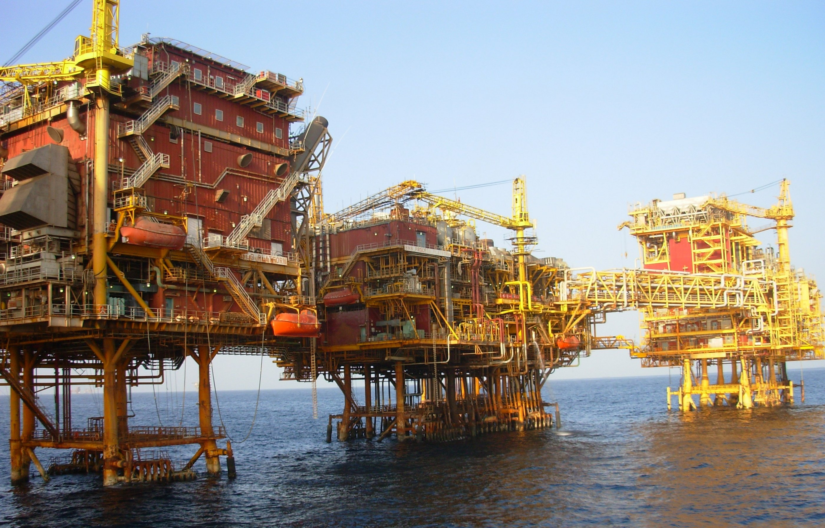 ONGC Oil and Gas Processing Platform. Bombay High, South Field. Undersea pipelines carry oil and gas to Uran, near Mumbai, some 120 NM away.